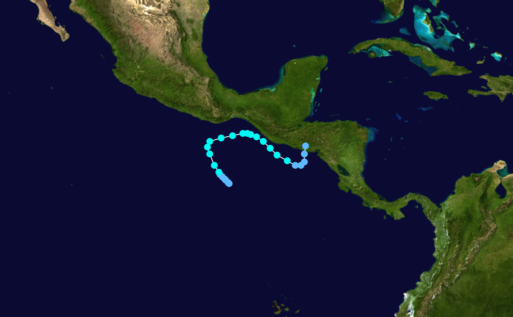 Tropical Storm Andres (1997) track. Uses the color scheme from the Saffir-Simpson Hurricane Scale.